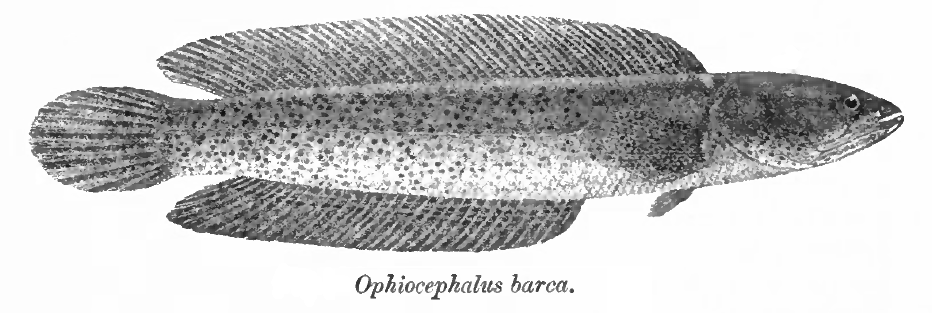 Ophiocephalus barca = Channa barca (Hamilton, 1822)